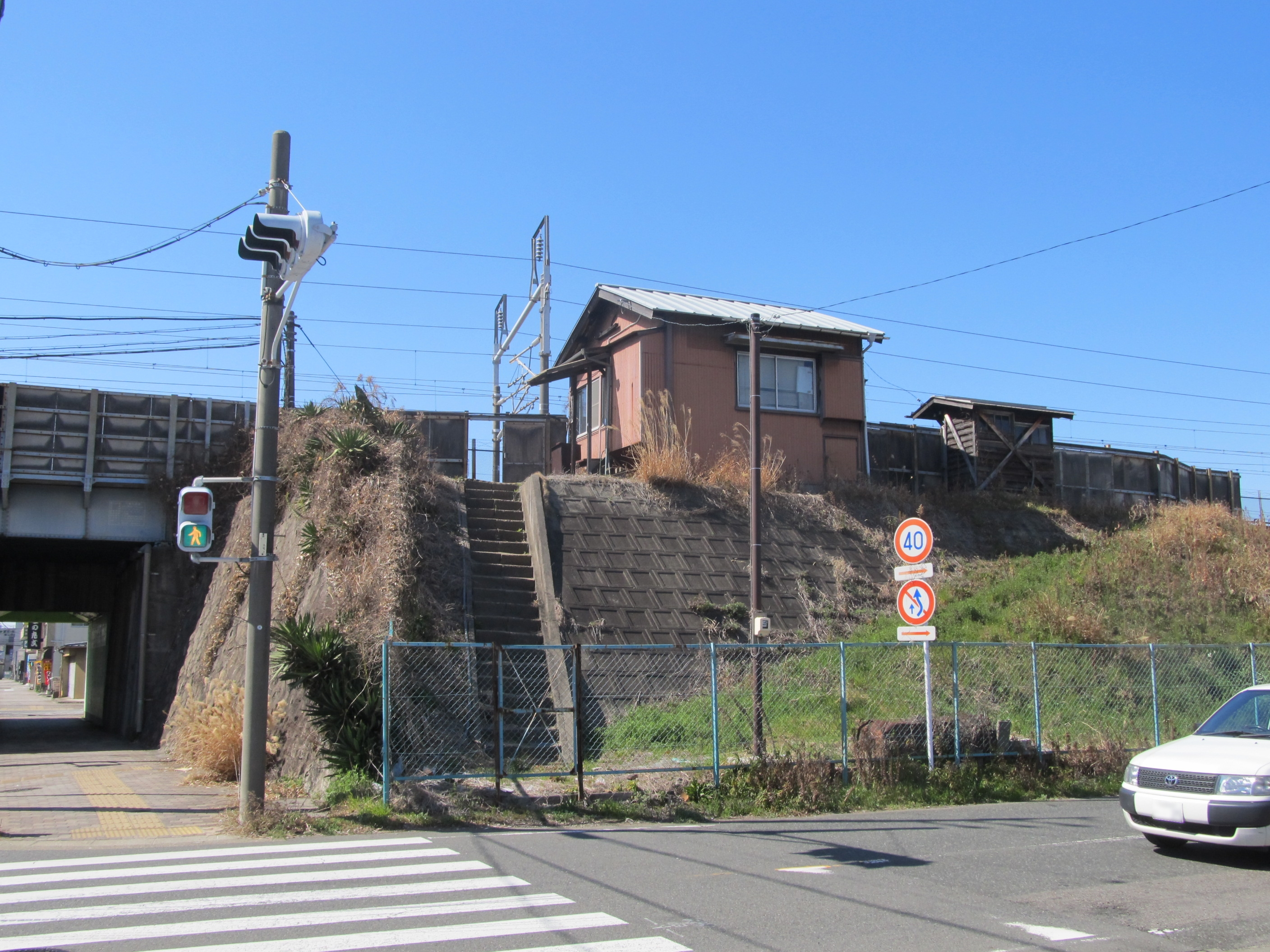 Japan Freight Railway Tōkaidō Main Line (Nagoya-Minato Line) Yawata Signal Box